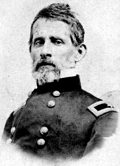 Jacob Ammen, Union General. Source: [1]